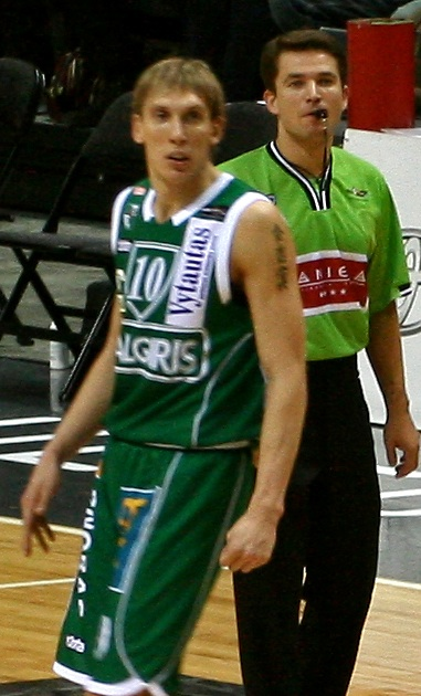 A derivative work from File:Siauliai Zalgiris.jpg - Dainius Salenga